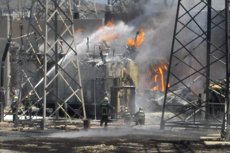 Fire in ultra-high voltage tranformer. Thessaloniki, Greece.